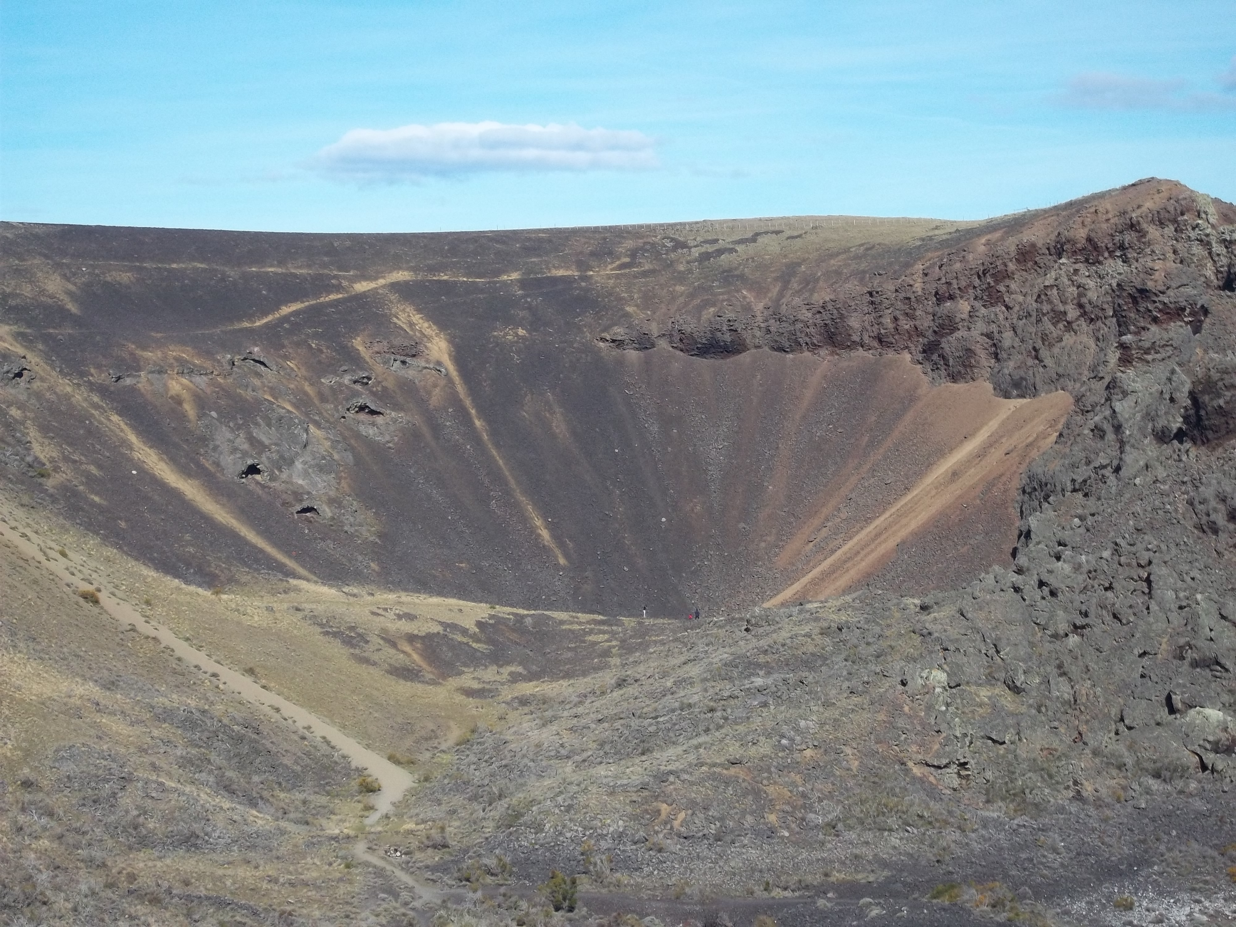 Volcano of the Laguna Azul (Argentina), secondary crater east of the main crater